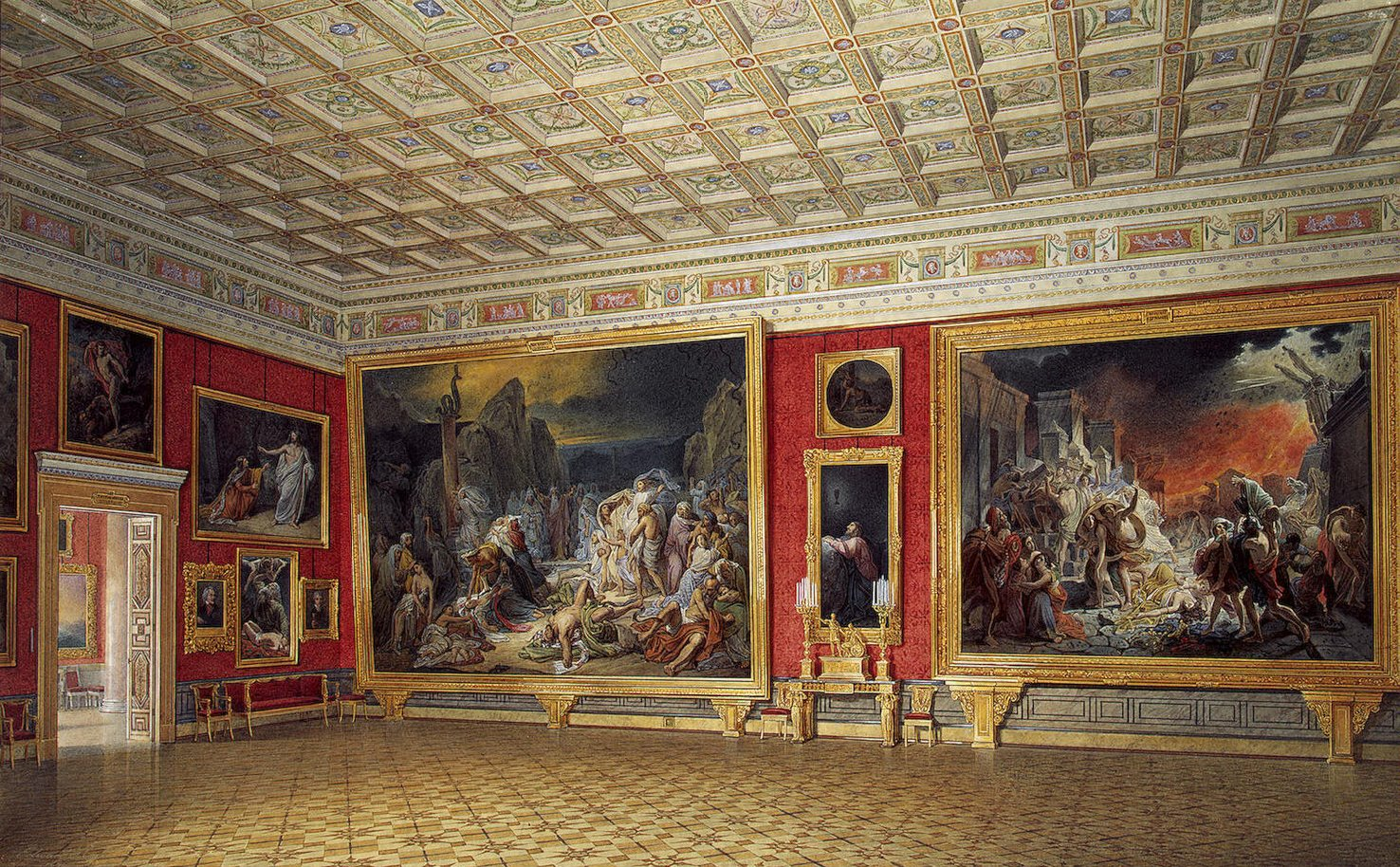 Interiors of the New Hermitage. Room of Russian Painting